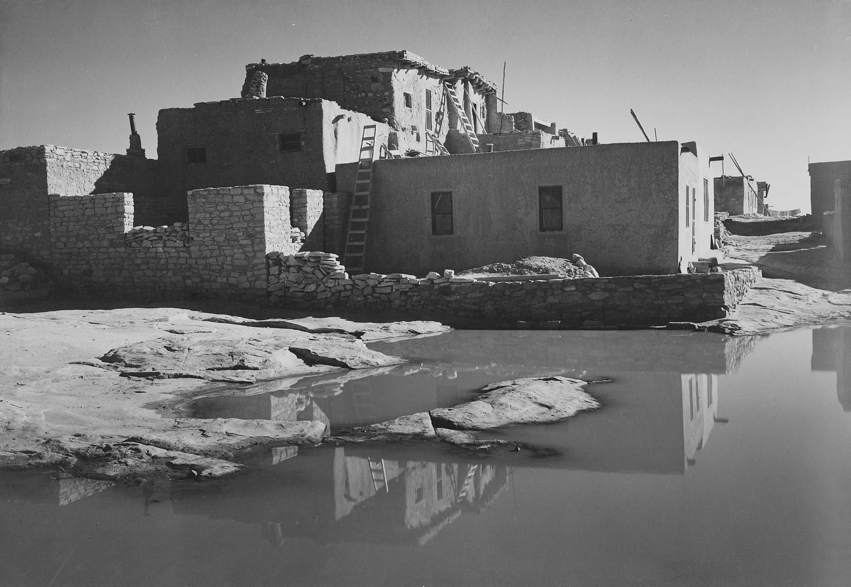 Full side view of adobe house with water in foreground.